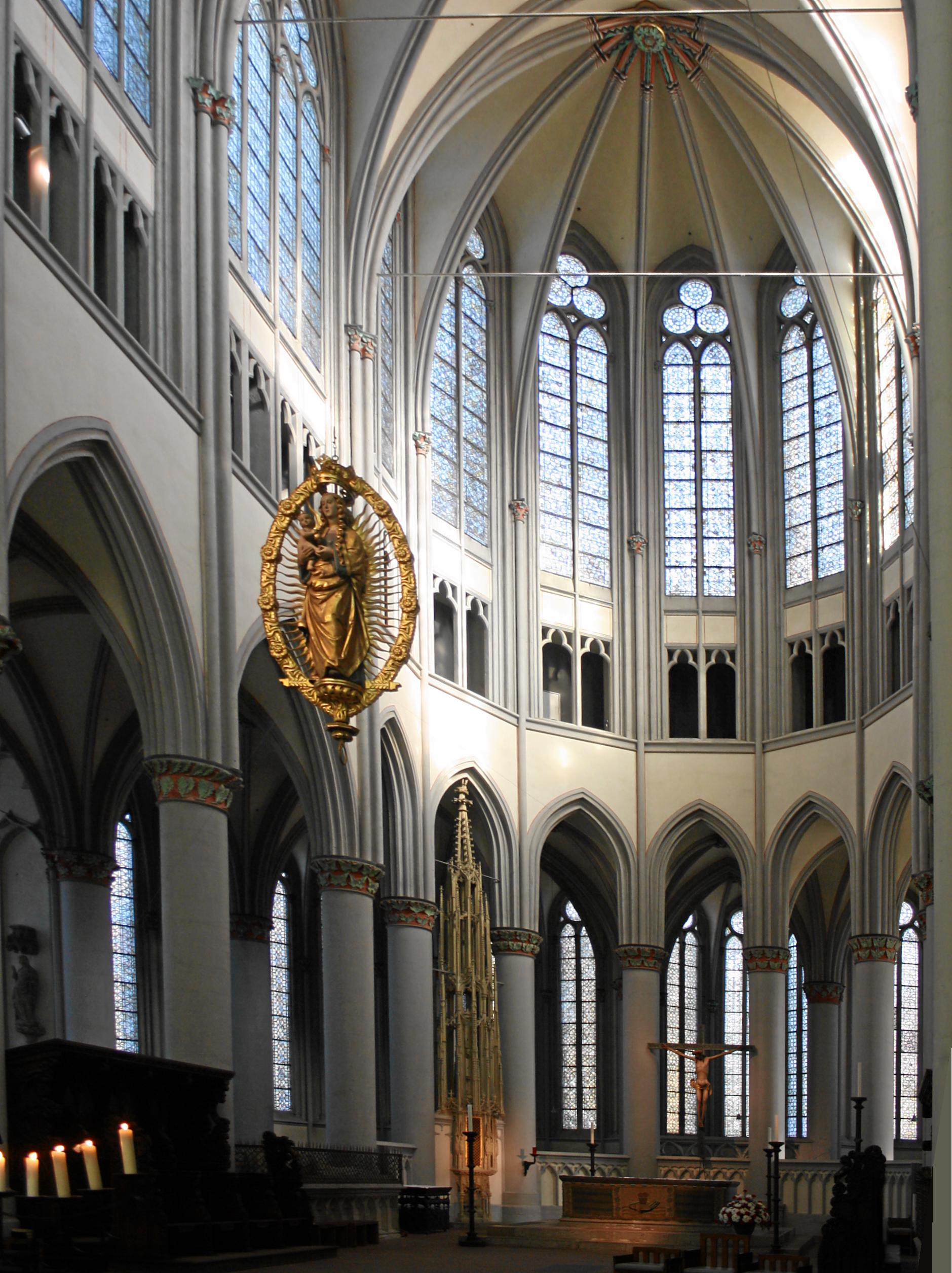 "Bergischer Dom" in Odenthal-Altenberg, Germany. Choir.